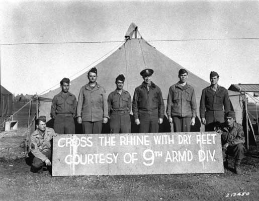 Company C, 27th Armored Infantry Battalion, 9th Armored Division of the US Army, captured the railroad bridge over the Rhine at Remagen. Before they were relieved by the 276th Engineer Combat Battalion, they placed a large sign on the north tower on the western side of the bridge to welcome soldiers: "CROSS THE RHINE WITH DRY FEET, COURTESY OF 9TH ARM'D DIV". Brig. General Thomas H. Harrold, Commanding General, U.S. 9th Armored Division (center) stands with members of the division who were awarded the Distinguished Service Cross for their actions during the battle to capture the bridge. Left to right: T/SGT Michael Clincher, Rochelle Park, NJ; SGT William Goodson, Rushville, IN; LT John Grimball, Columbus, SC; CPT George P. Soumas; Perry, IA; BG Thomas H. Harrold; LT Karl Timmermann; West Point, NB; SSG Eugene Dorland; Manhatten, KS; SGT Joseph S. Petrinosik; Berea, OH.